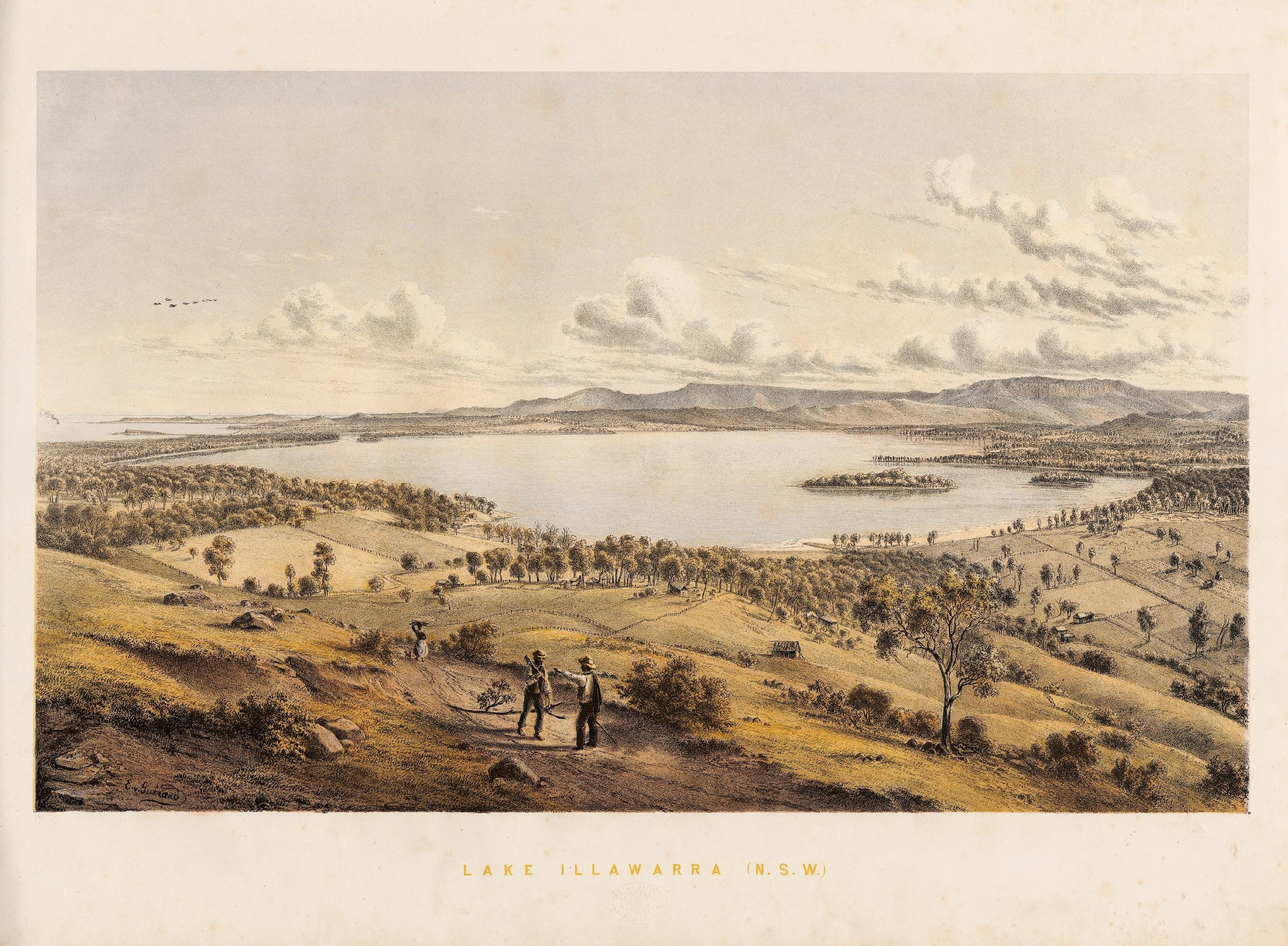 von Guérard wrote: "The abundance of wild fowl on the Lake renders it a favorite haunt of sportsmen; while the forests which clothe the sides of the Illawarra, or Merryong Range, likewise teem with game. Few scenes combine so many picturesque elements as this, in which the placid beauty of the Lake, sprinkled with islands, and set in a zone of smiling pastures and umbrageous woods, is contrasted so effectively with the rugged grandeur of the predominating mountains, and the noble expanse of the neighbouring ocean."